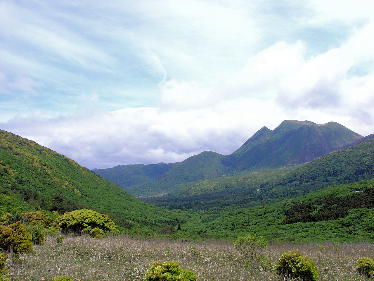 View from Makinoto Pass.(Kokonoe Town, Oita Prefecture, Japan)